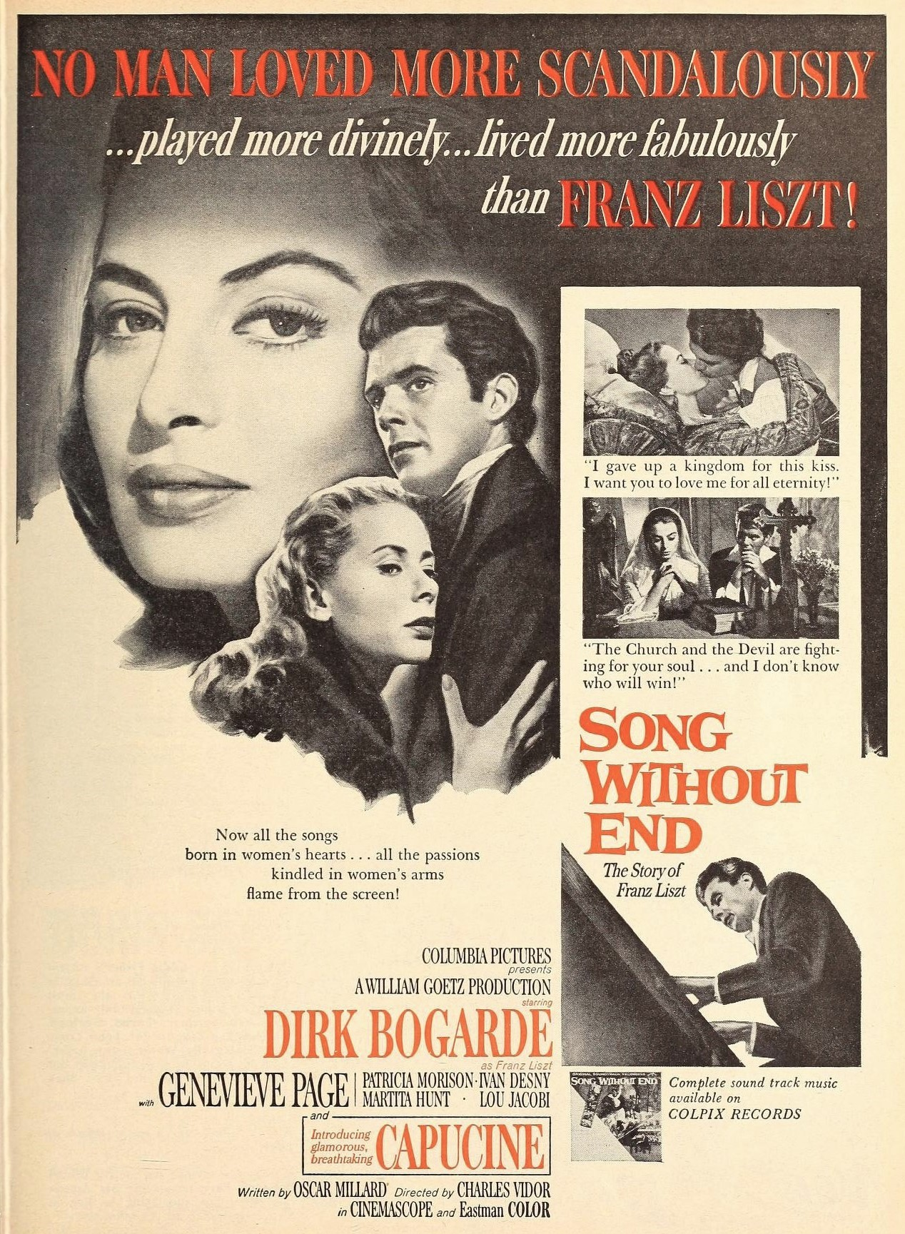 Song Without End. The Story of Franz Liszt, 1960, starring Dirk Bogarde, Capucine, and Geneviève Page.